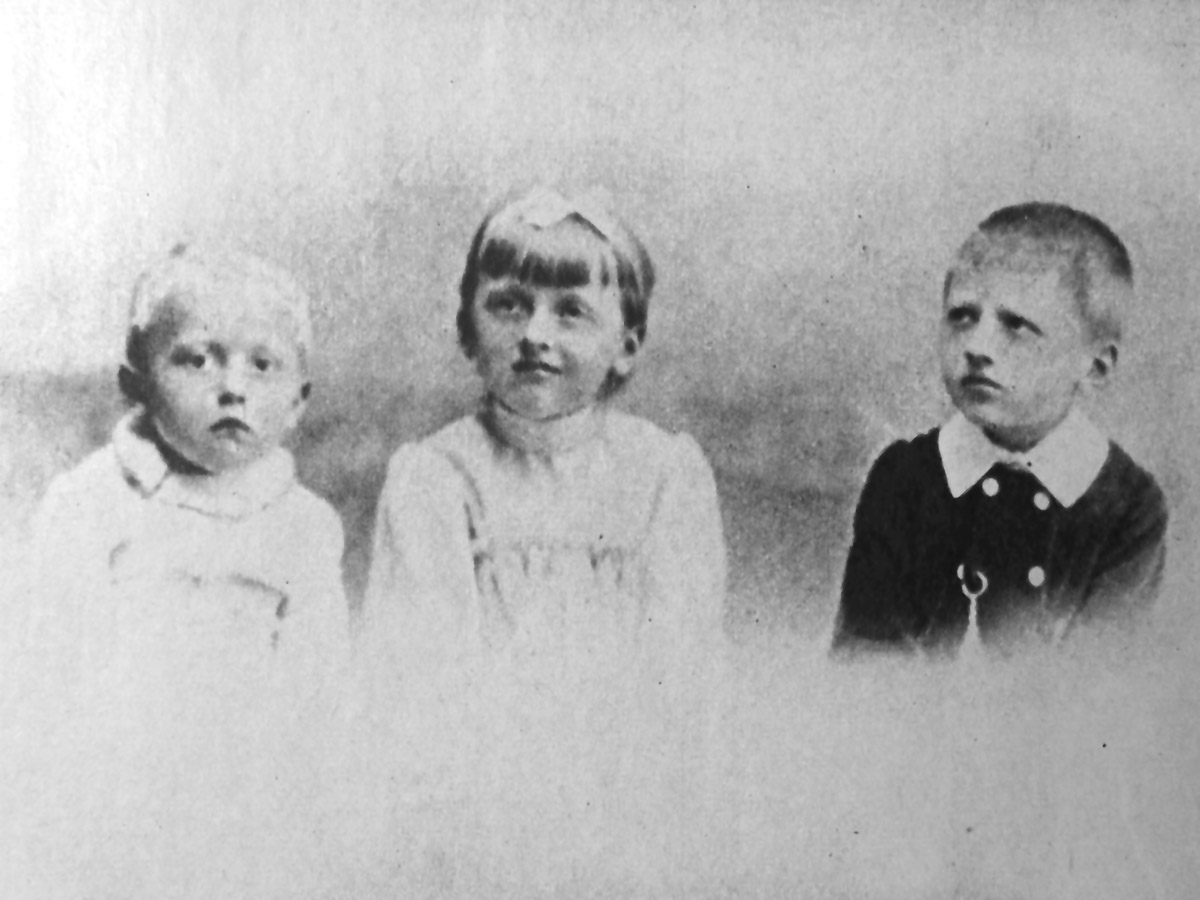 The children of Géza Gárdonyi Hungarian writer in the mid-1890s